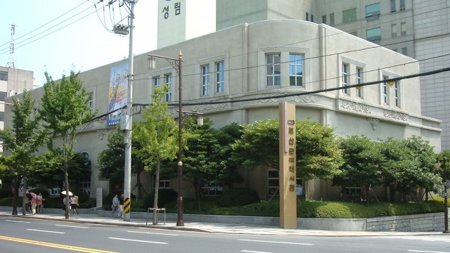 Busan Modern History Museum, Busan, South Korea. This building was used as the Busan Branch of the Oriental Development Company and USIS Cultural Center